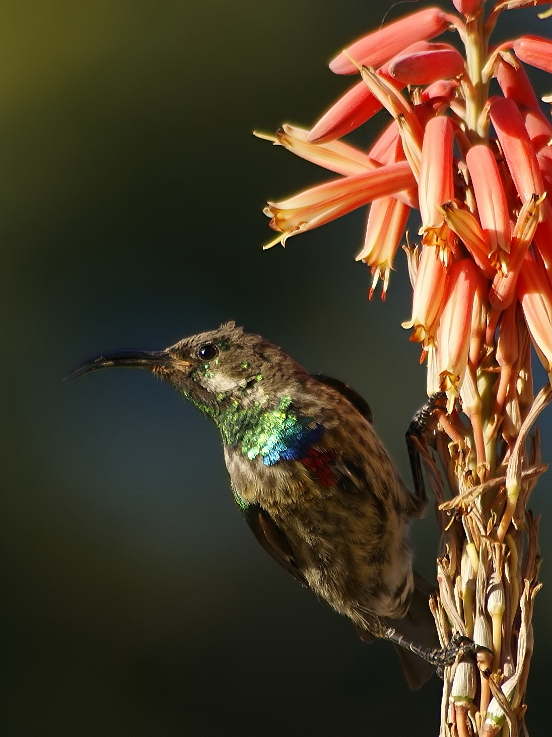 Mariqua Sunbird in Tsumeb, Namibia.